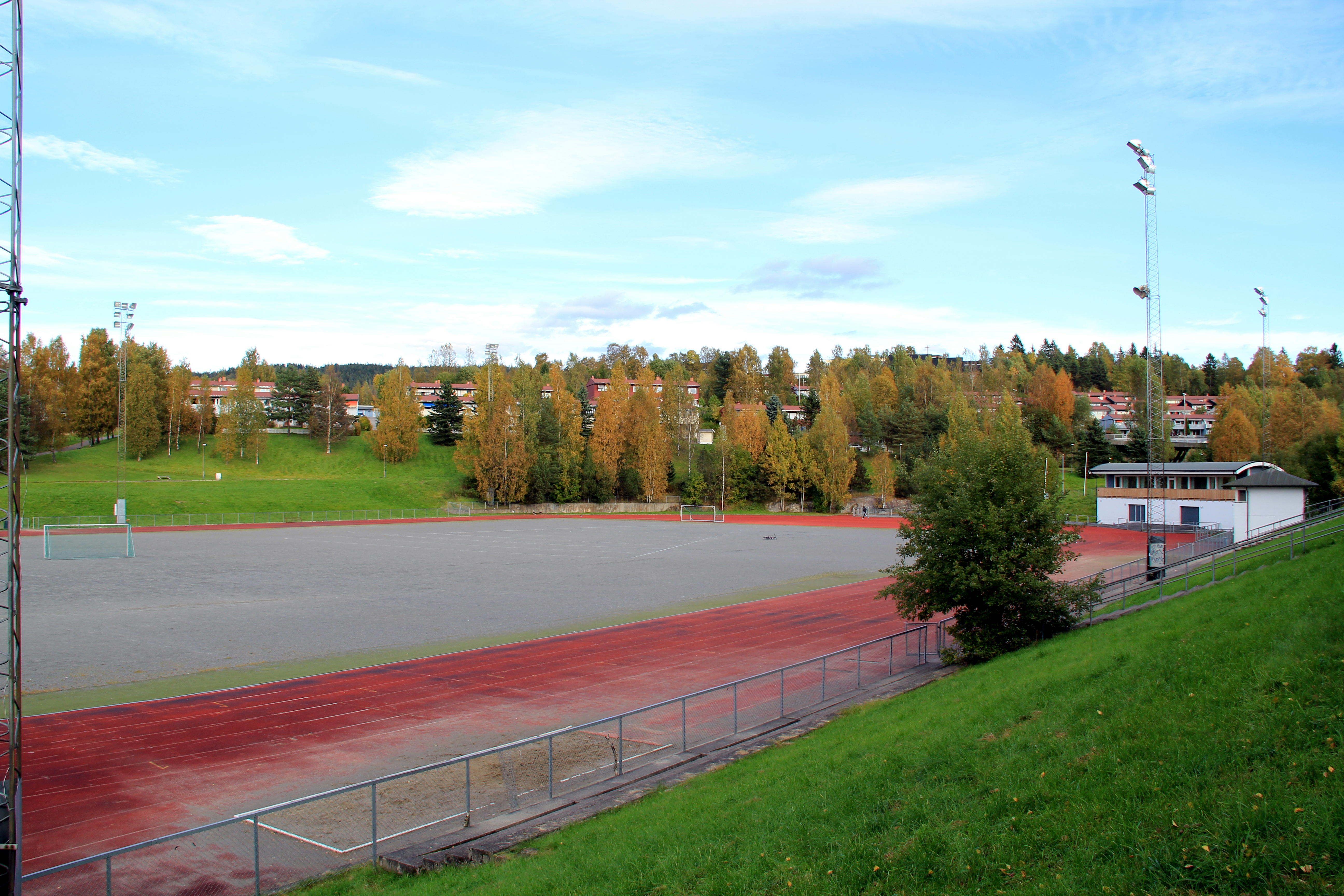 Stovner stadion, athletics stadium in Oslo